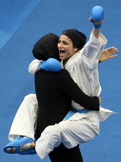 Karate at the 2017 Islamic Solidarity Games, women kumite −50 kg